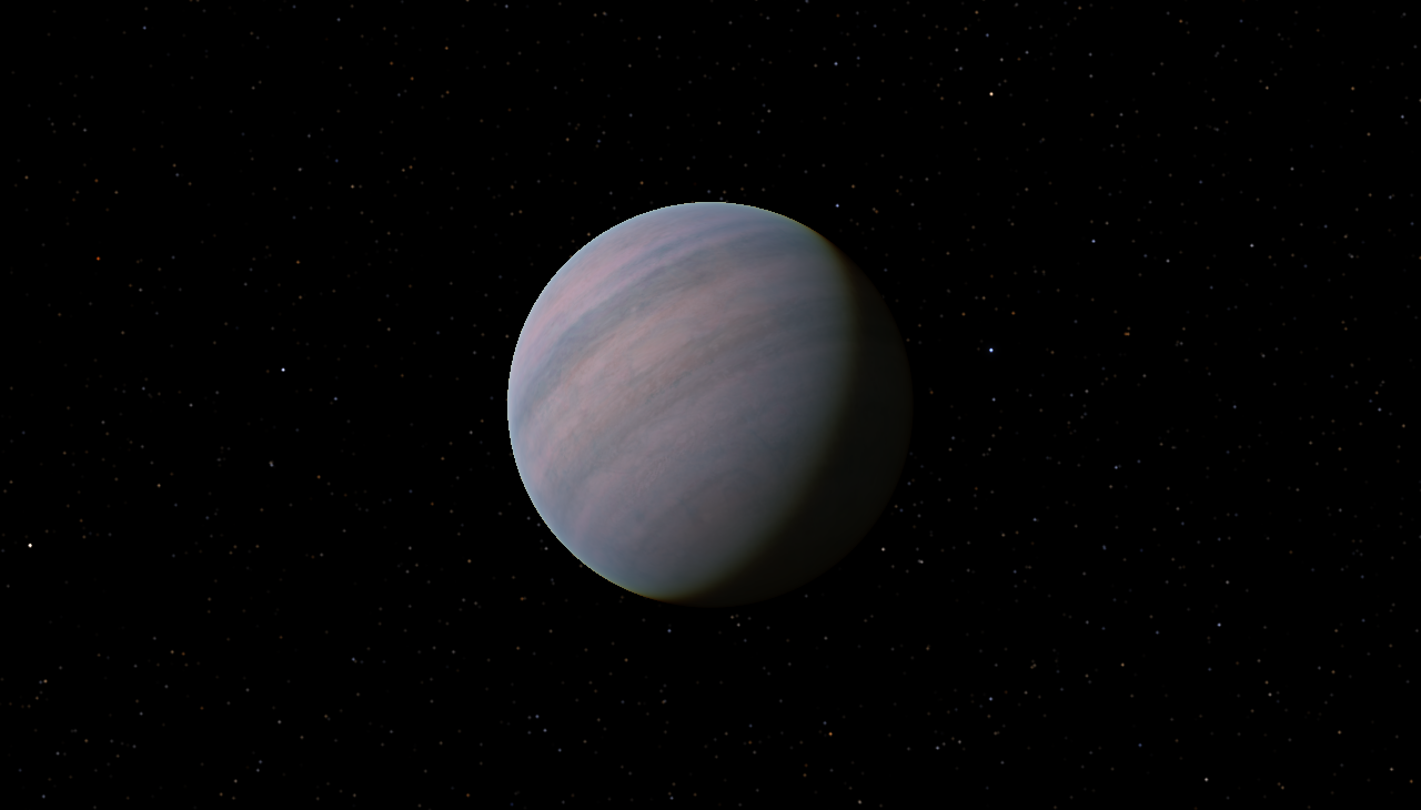 Gliese 581 d, water-rich (?) rocky planet.